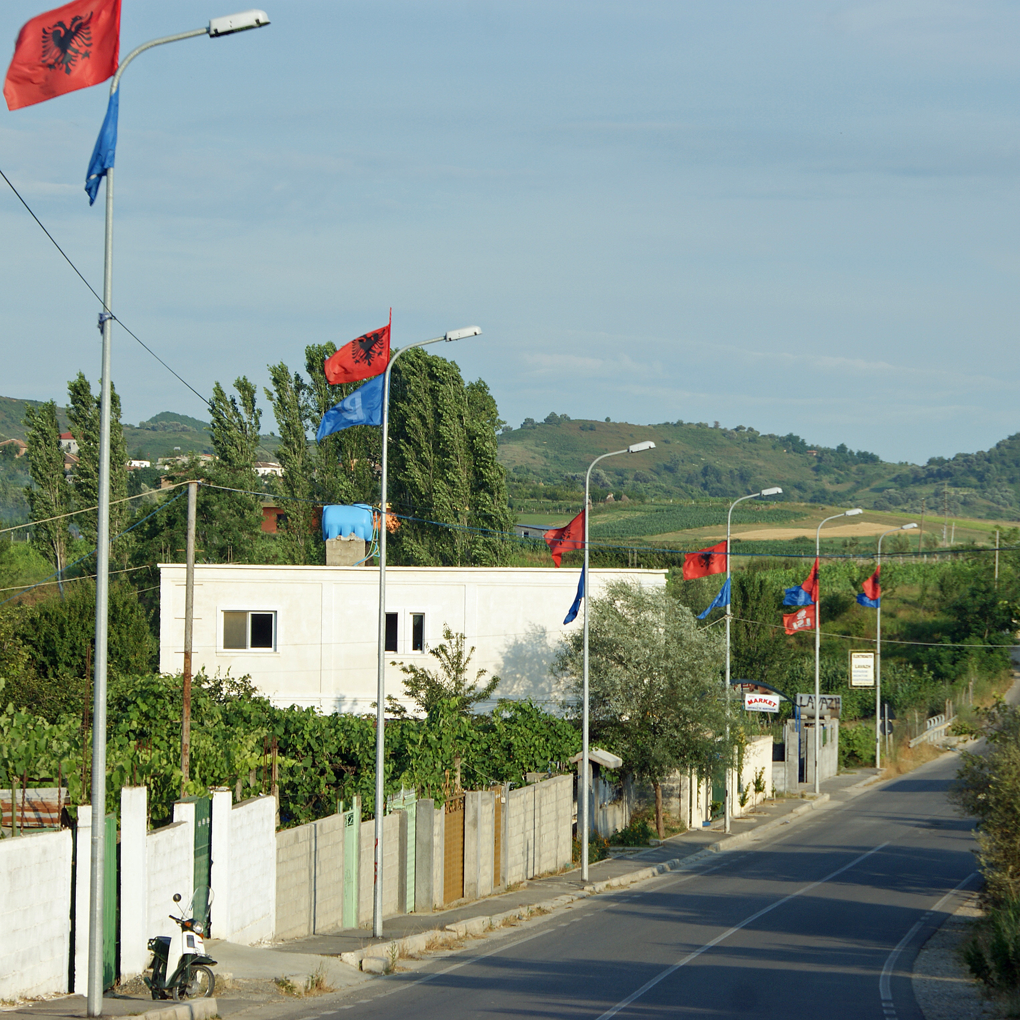 Flags in Manëz Community in Albania after the local elections of spring 2011